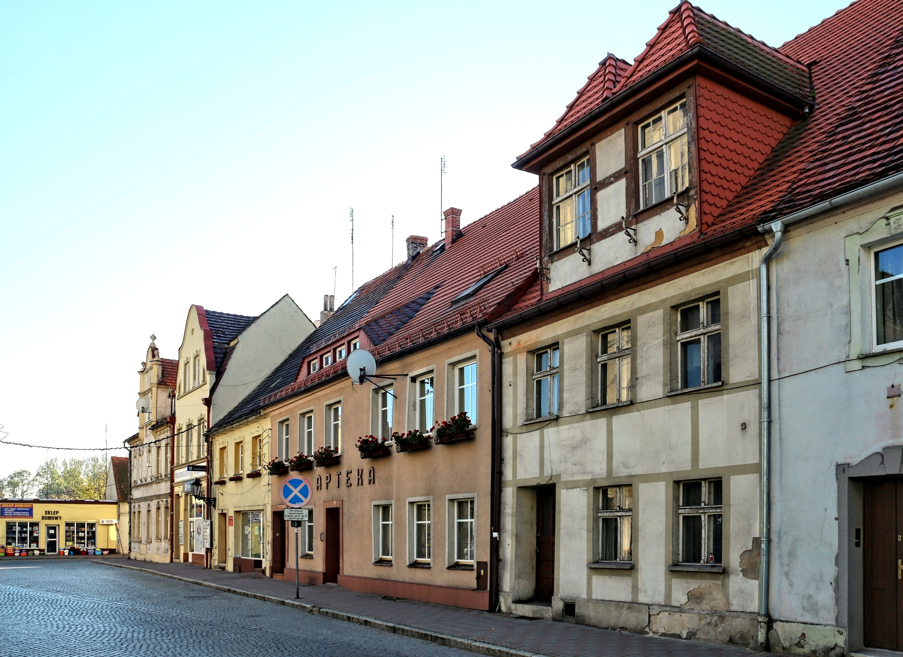 Rynek (market square) in Sława